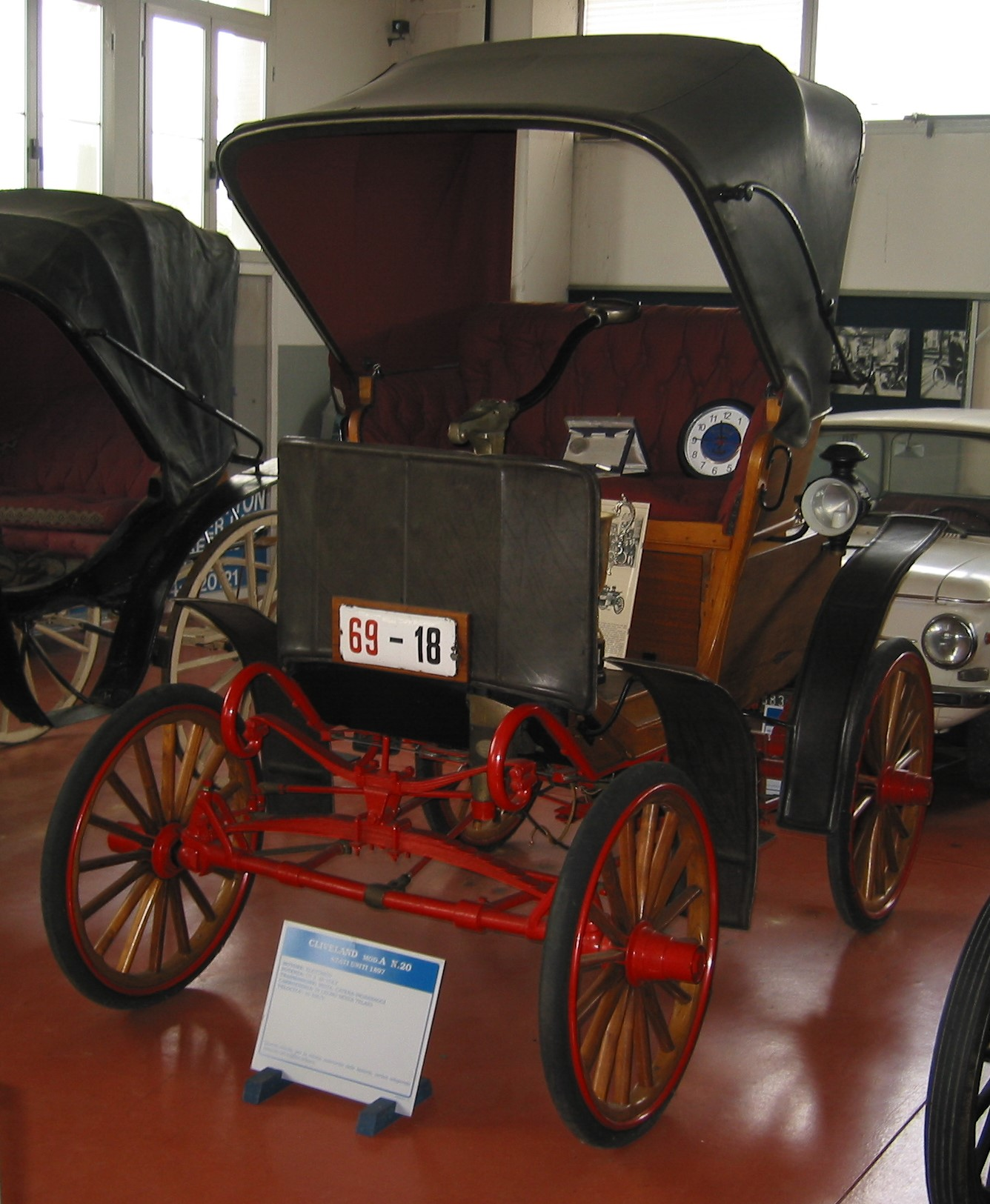 Cleveland, Sperry System 1899